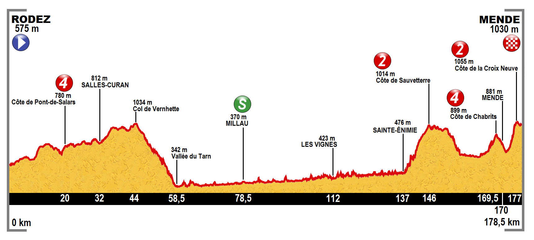 Profile of the 14th stage of the Tour de France 2015